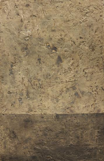 1956 Mixed media on board. 85.5 × 56 cm (33 5/8 × 22 in). Signed and dated ‘Mira MCMLVI’on the reverse.